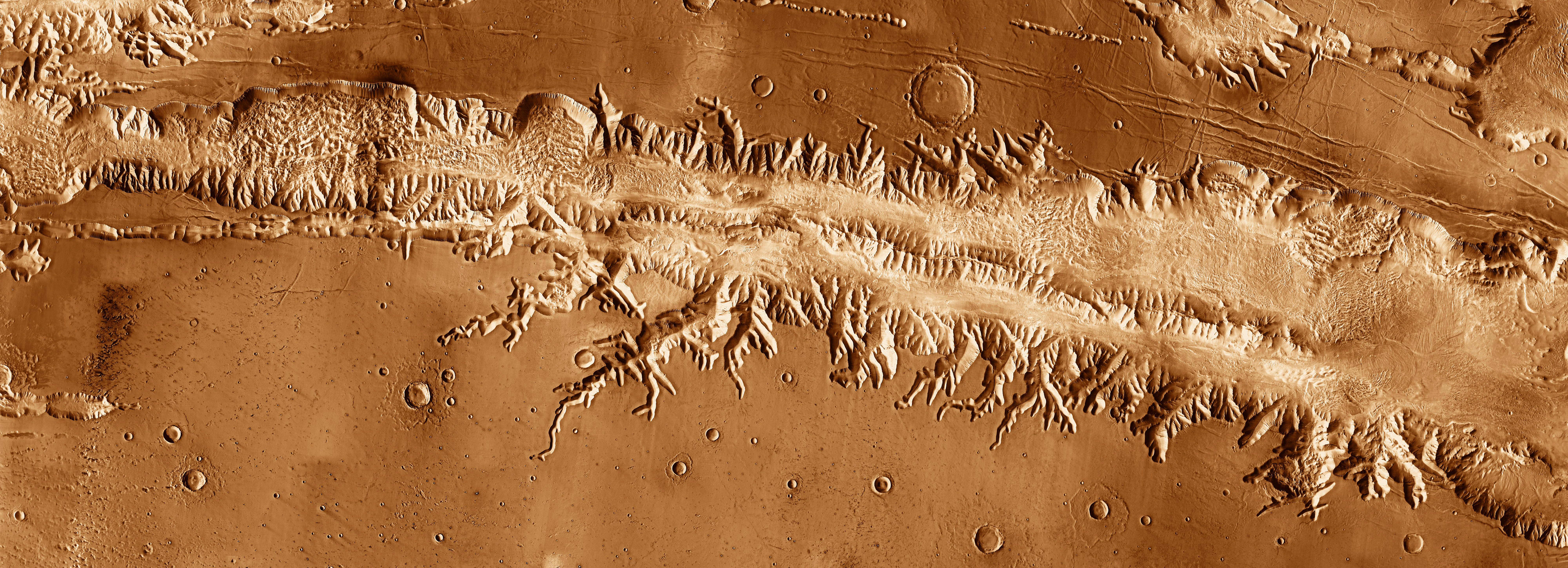 View of Ius Chasma, part of the enormous Valles Marineris canyon system on Mars. Parts of Tithonium, Candor and Melas chasmata are visible at upper left and right, extreme upper right, and extreme lower right, respectively. This image was obtained by cropping a massive 23,711 × 11,856 pixel mosaic of NASA images, and adjusting in hue and saturation. The original caption for the mosaic reads in part as follows: This mosaic image of Valles Marineris - colored to resemble the martian surface - comes from the Thermal Emission Imaging System (THEMIS), a visible-light and infrared-sensing camera on NASA's Mars Odyssey orbiter. Mars Odyssey was built by Lockheed Martin and the mission is operated by the Jet Propulsion Laboratory. Built from more than 500 daytime infrared photos, the mosaic shows the whole valley in more detail than any previous composite photo. Despite the valley's huge extent - including its western extension through Noctis Labyrinthus, it reaches some 3,000 kilometers (2,000 miles) long - the smallest details visible in the image are about the size of a football field: 100 meters (328 feet).